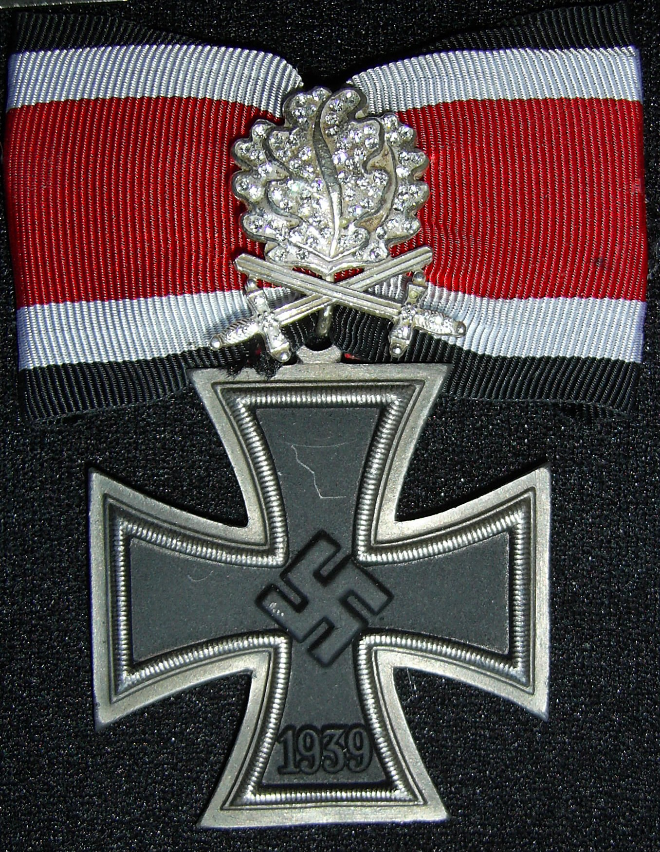 Knight's Cross of the Iron Cross with Oak Leaves, Swords and Diamonds.